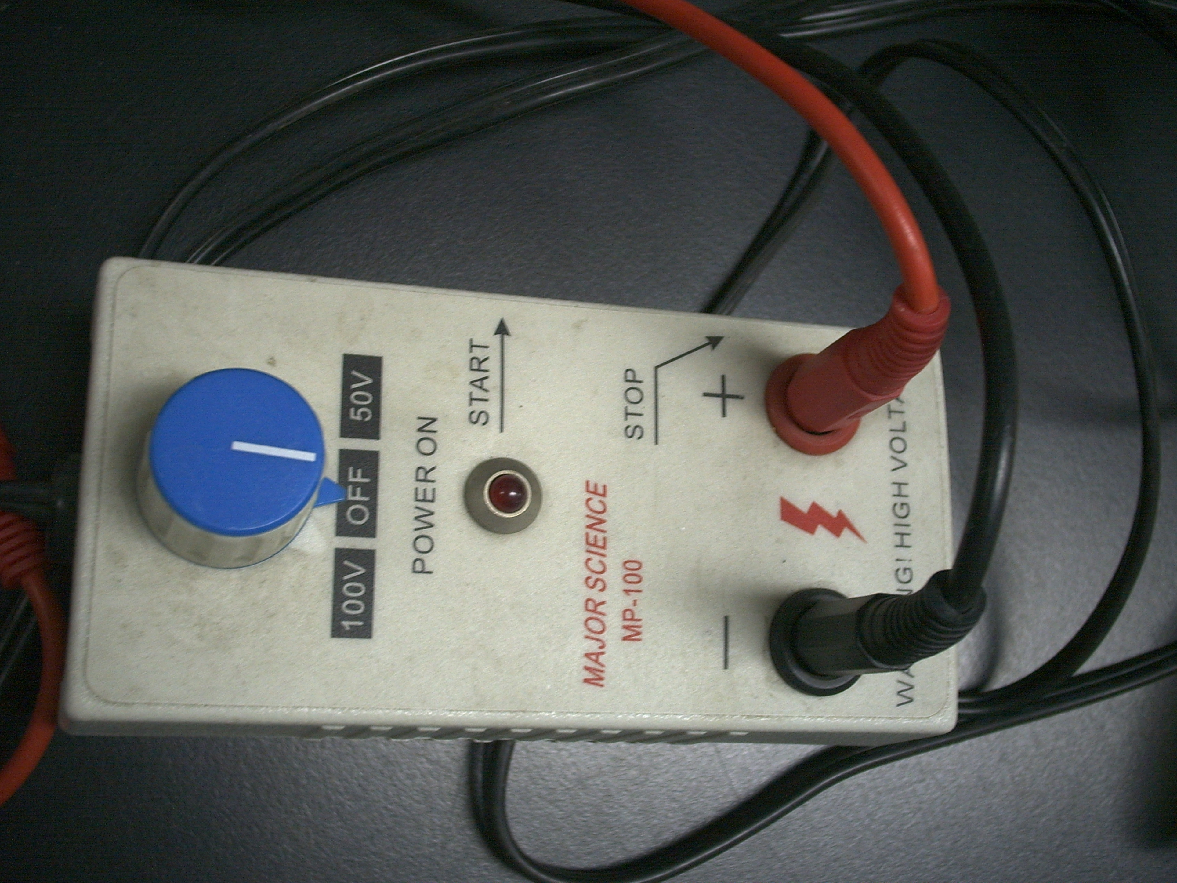 Electrophoresis